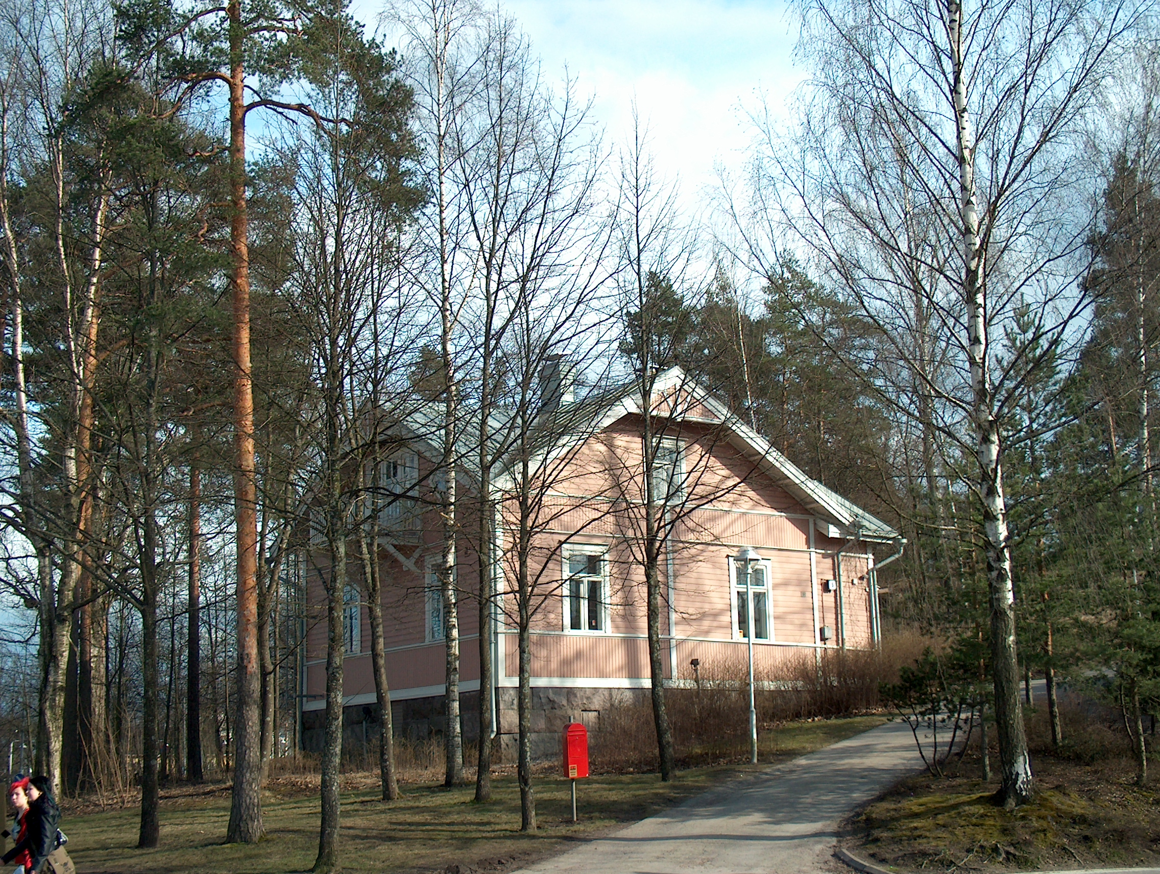 Art School for Children in Kerava, Finland